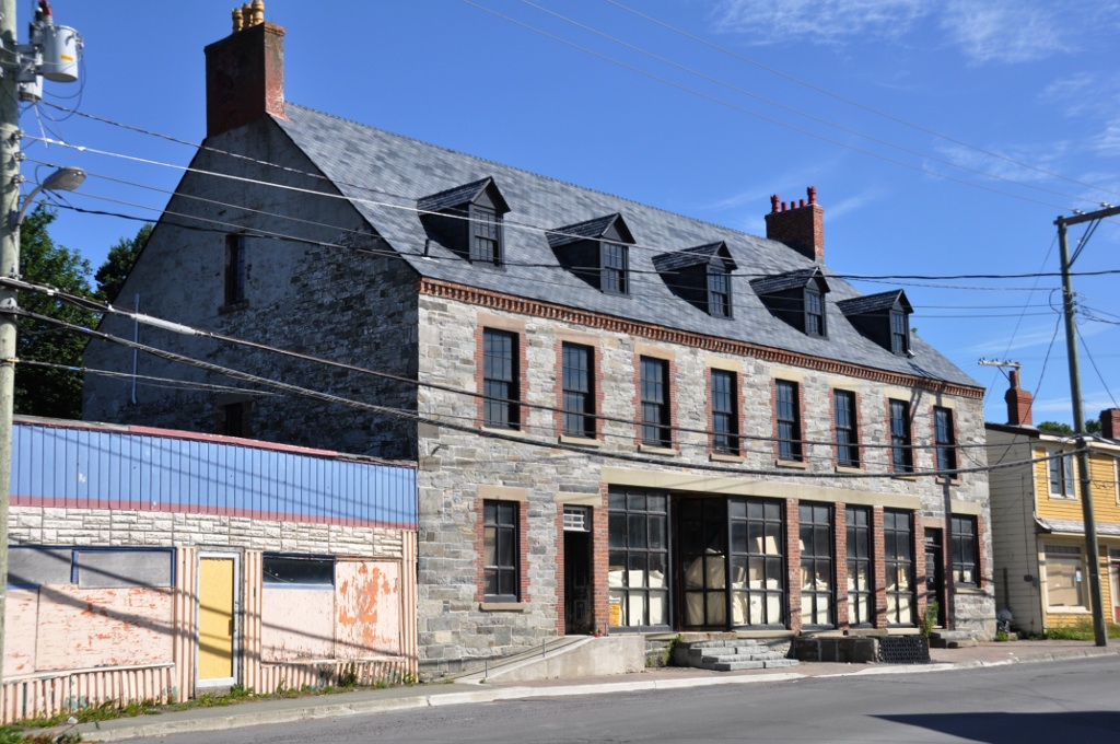 Rorke's Stone Jug, Carbonear, Newfoundland.